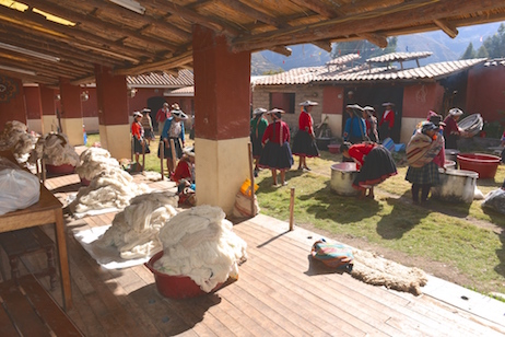 this photo shows indigenous weavers from Pitumarca, Peru using natural dyes to dye sheep and llama wool as part of a workshop by the Center of the Traditional Textiles of Cusco photo by Britta Fluevog. Hanks of handspun yarn are in the foreground in separate piles to be dyed separate colours.